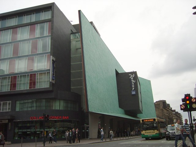 Radisson SAS Hotel, Glasgow This new hotel, just a stone's throw from Glasgow Central station is very bold and striking.